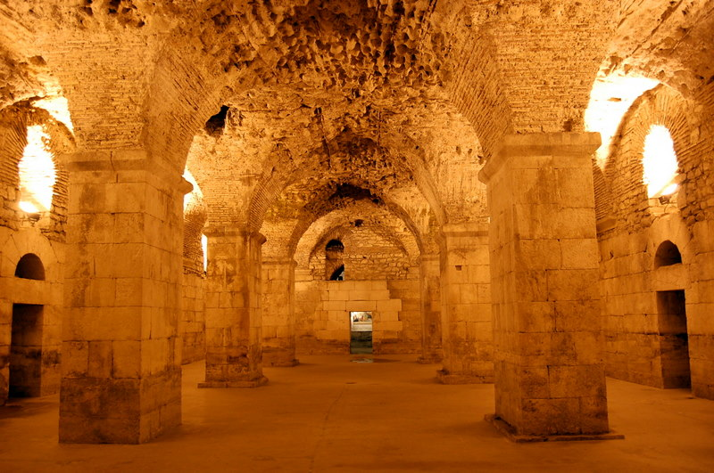 Diocletian. Own work. In Diocletian's Palace, Split, Croatia, Hrvatska.